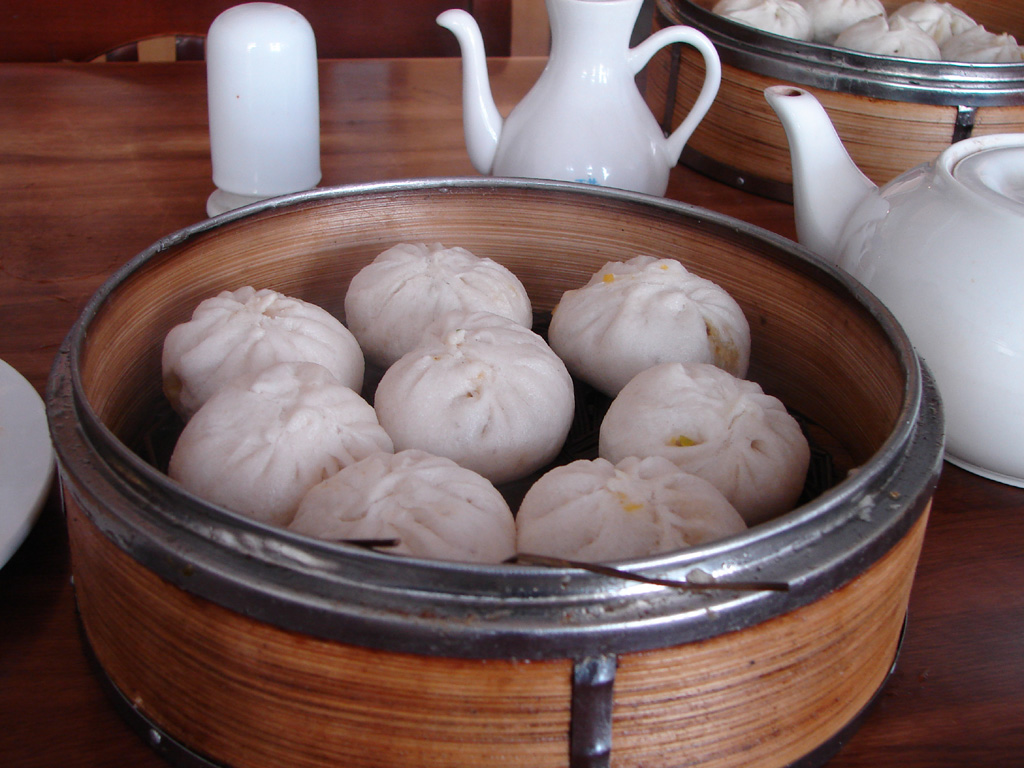 Nangua Baozi, or pumpkin dumplings, from Yuncheng, China.